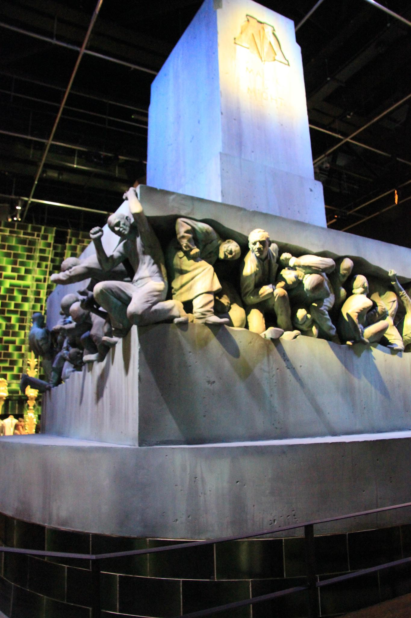 Warner Bros. Studio Tour London: The Making of Harry Potter.